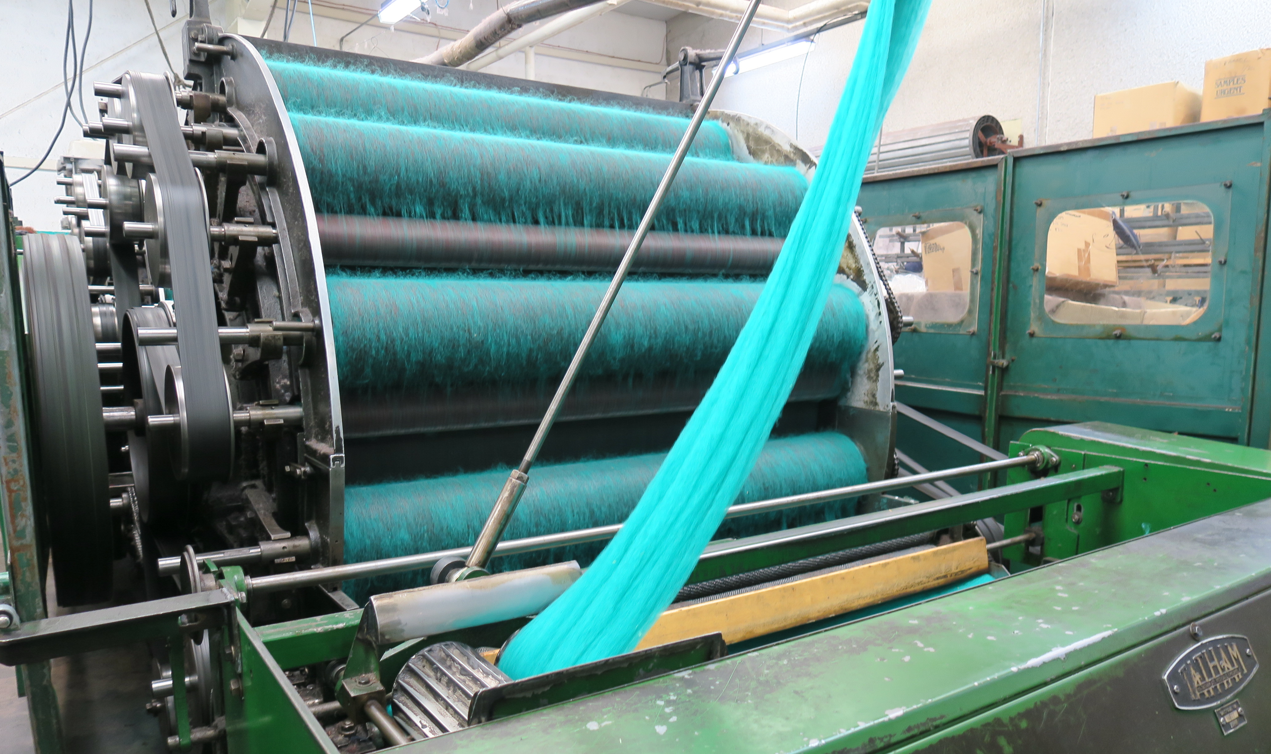 Dyed wool processed with Tatham (1949) carding machine at Jamieson Mill, Sandness (Shetland).